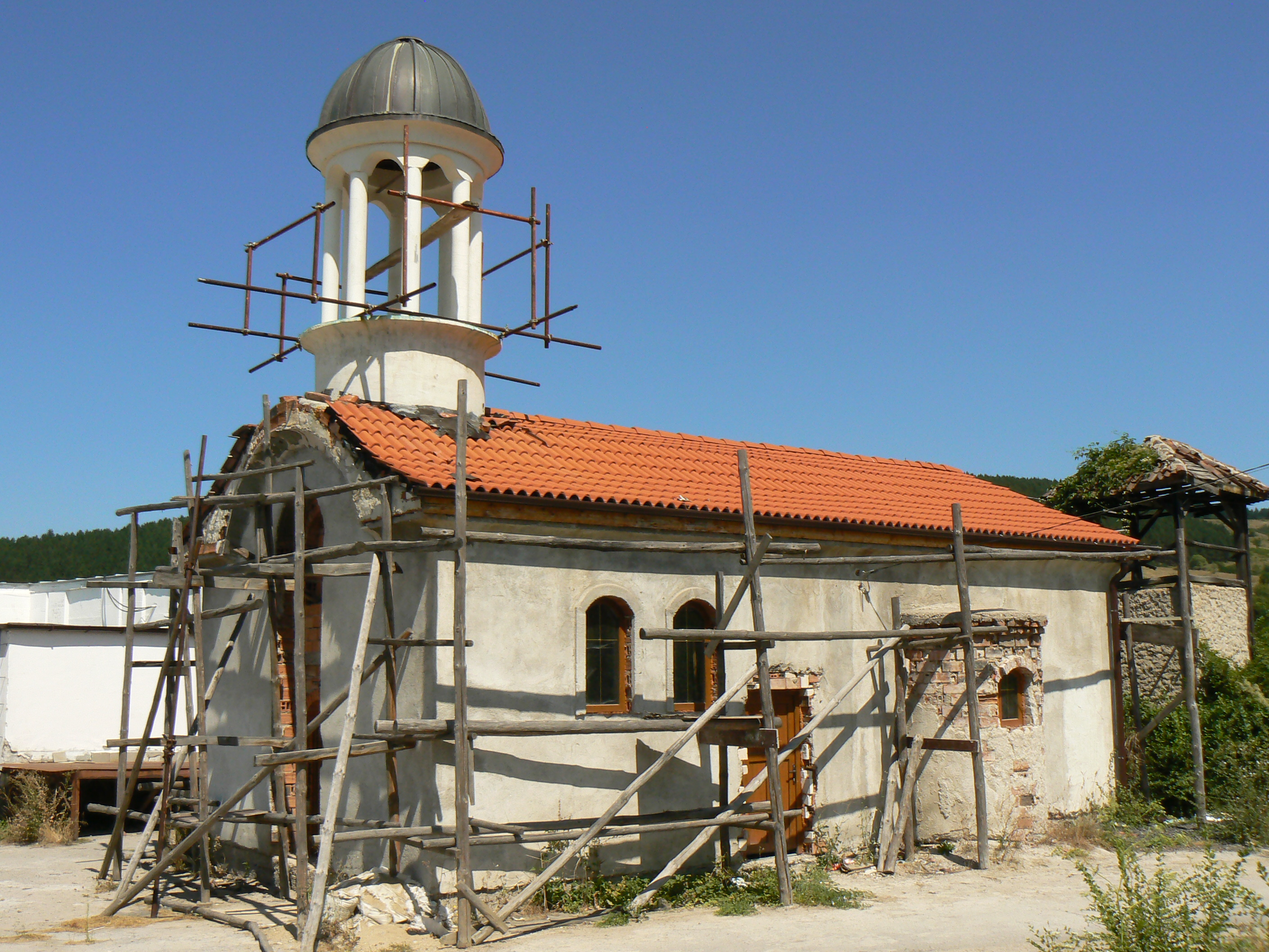 The newly constructed church in the centre of village Lyulin, Pernik District, Bulgaria